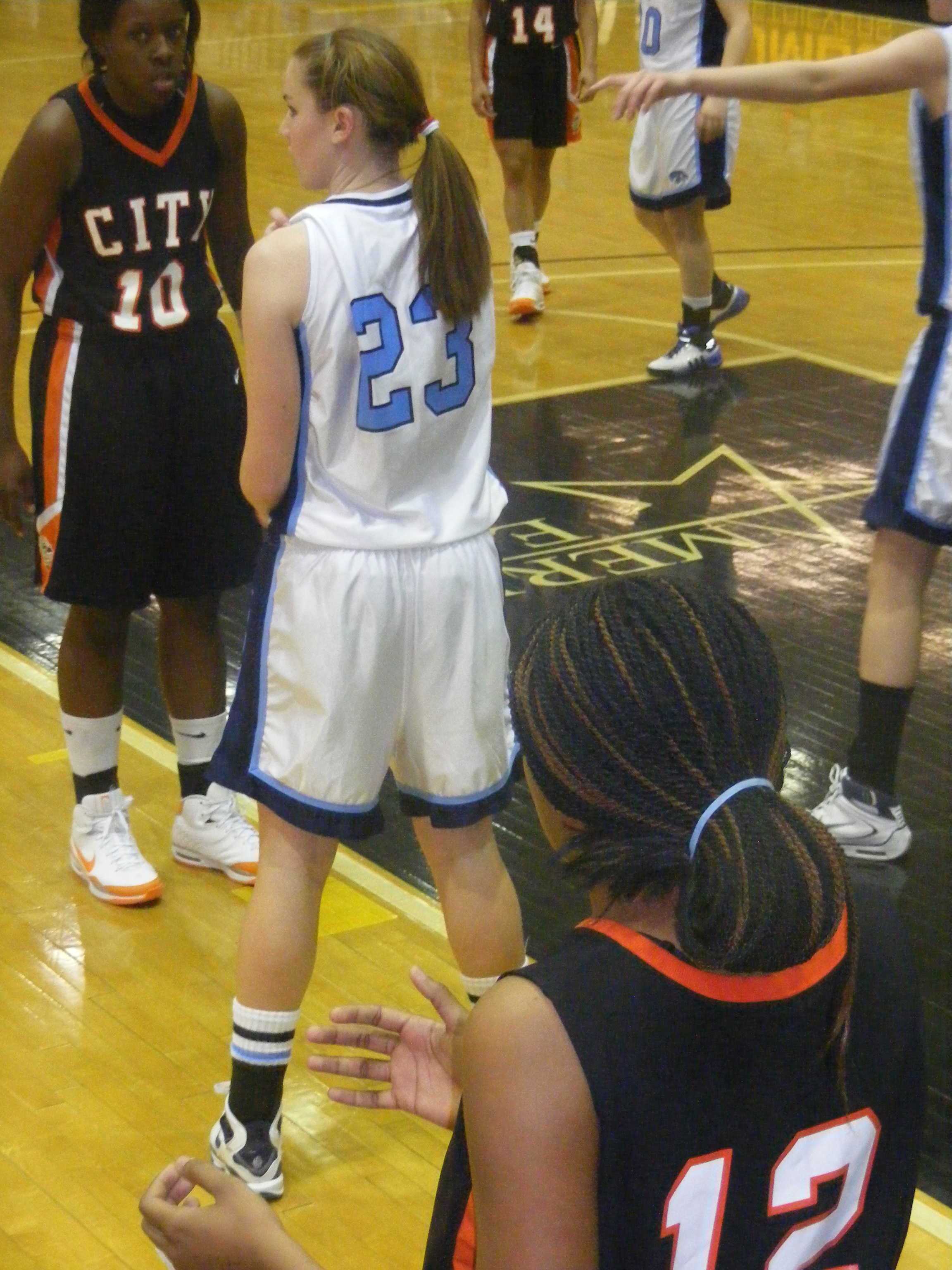 Baltimore City College Lady Knights players #10 (left) and #12 (right) around River Hill High School player Alicia Seelaus (#23) during the 2009 Maryland class 2A high school girls' basketball championship game at Retriever Activities Center